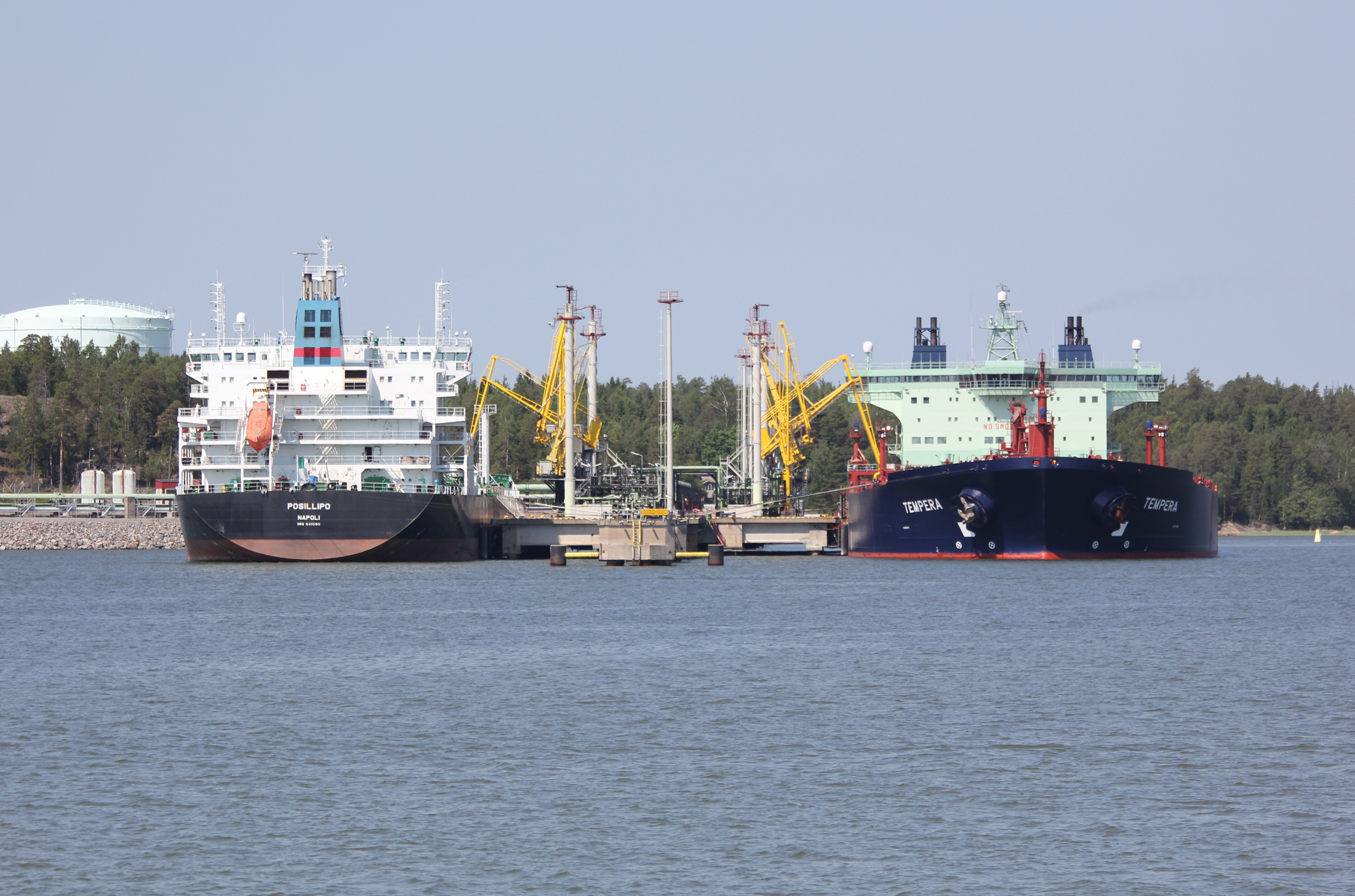 Tankers Posillipo and Tempera in Porvoo oil refinery.